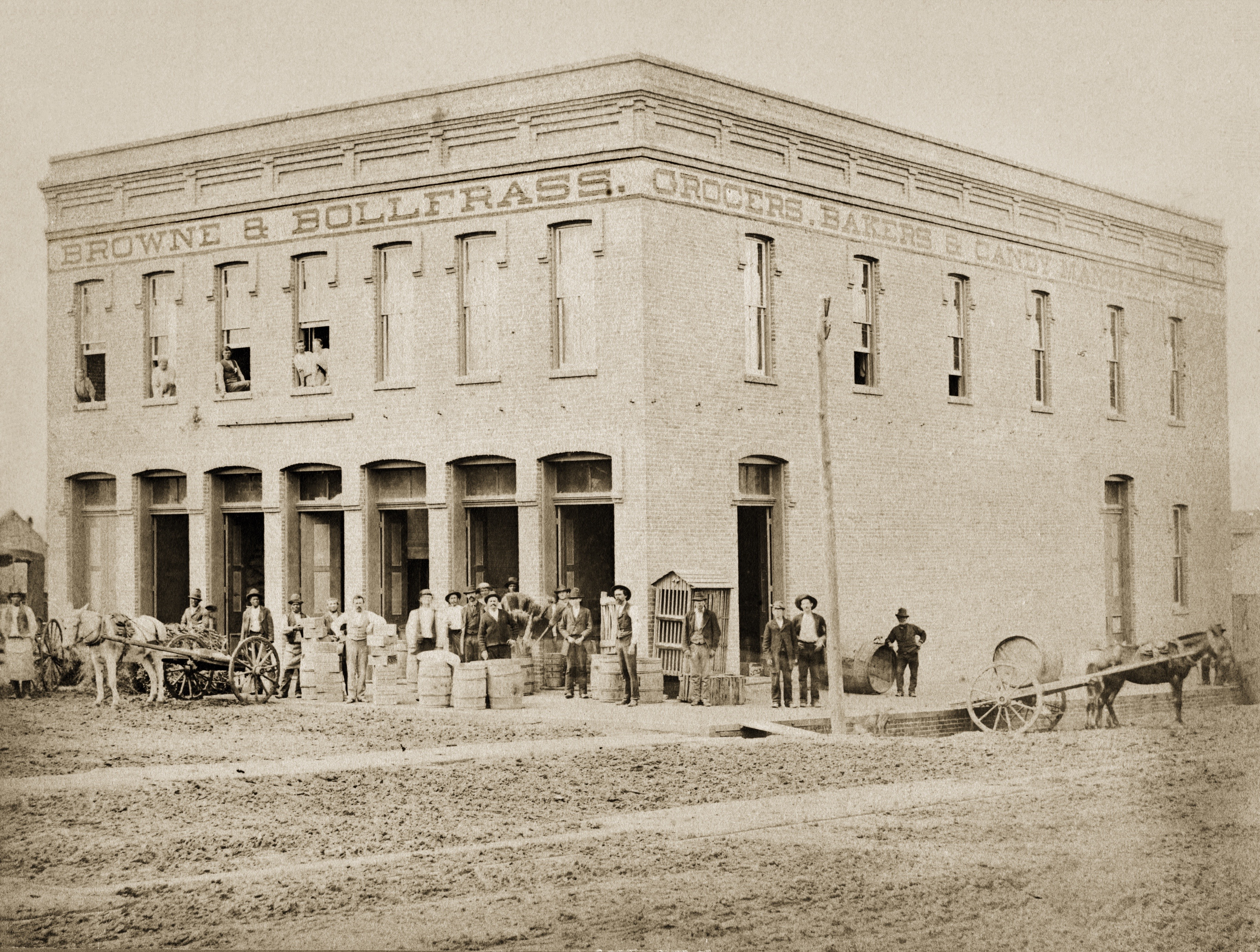 Browne is standing without coat, wearing light vest. Bollfrass is in black coat and hat with hand on hip.